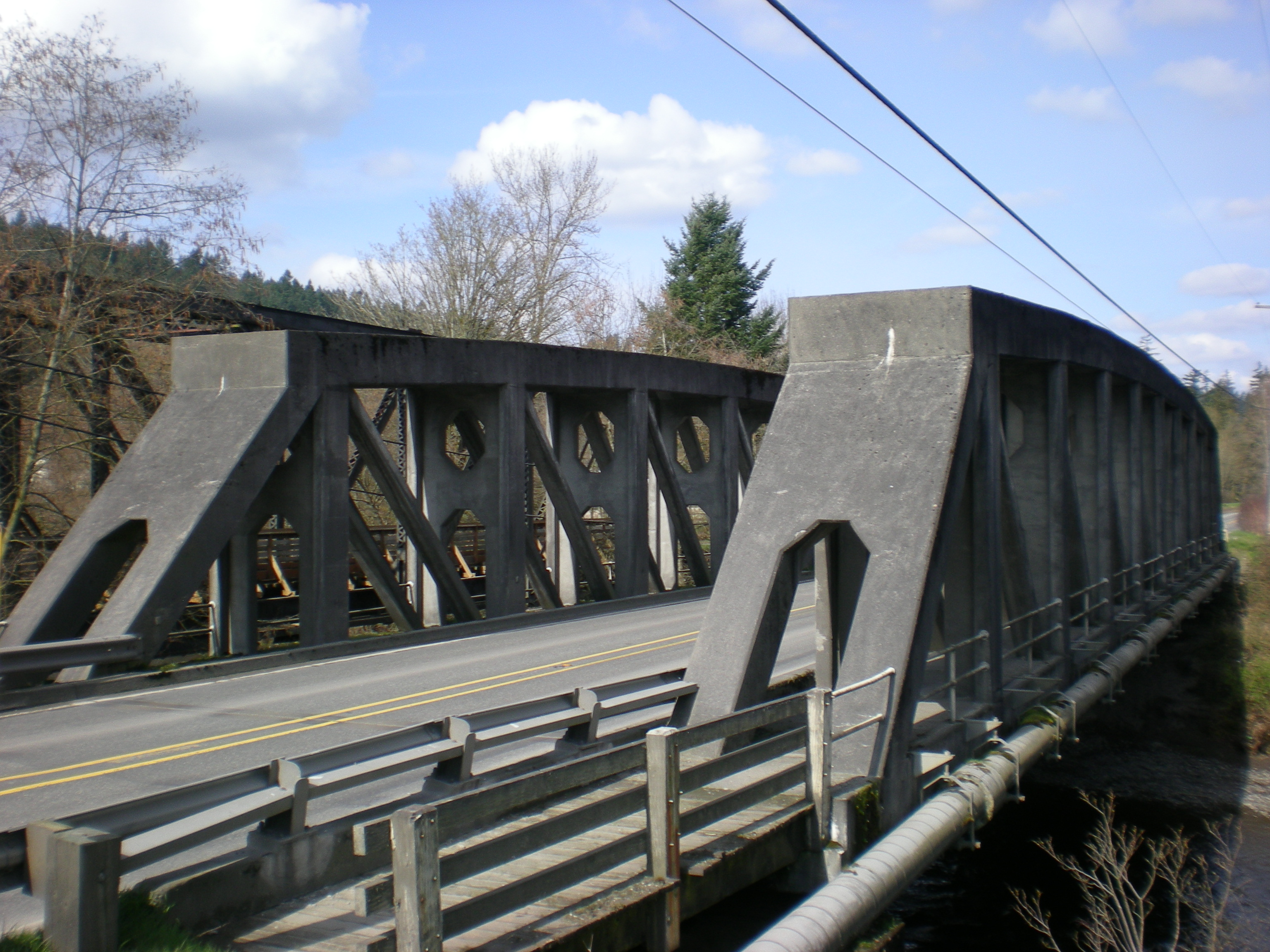 The McMillin Bridge over the Puyallup River in McMillin, Washington